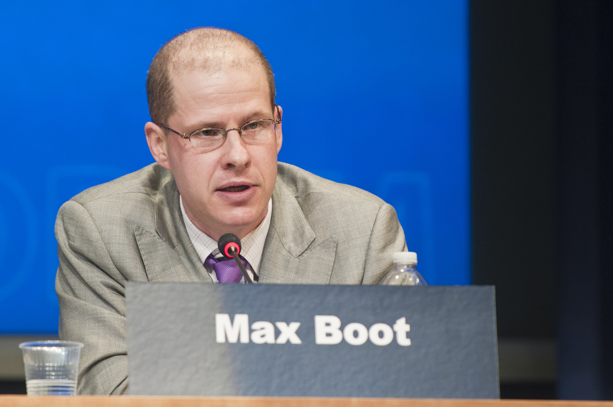 NAVAL WAR COLLEGE, Newport RI (June 8, 2010) Max Boot speaks at the second panel discussion at the 2010 Current Strategy Forun at the Naval War College. Hosted by the Honorable Ray Mabus, Secretary of the Navy, this year's conference will explore the theme of "The Global System in Transition" by examining United States foreign policy in the emerging global order, the "strategic leadership" opportunities for the United States, and the role of the maritime services in supporting the nation's key objectives.(U.S. Navy photo by Chief Electronics Technician James B. Clark)